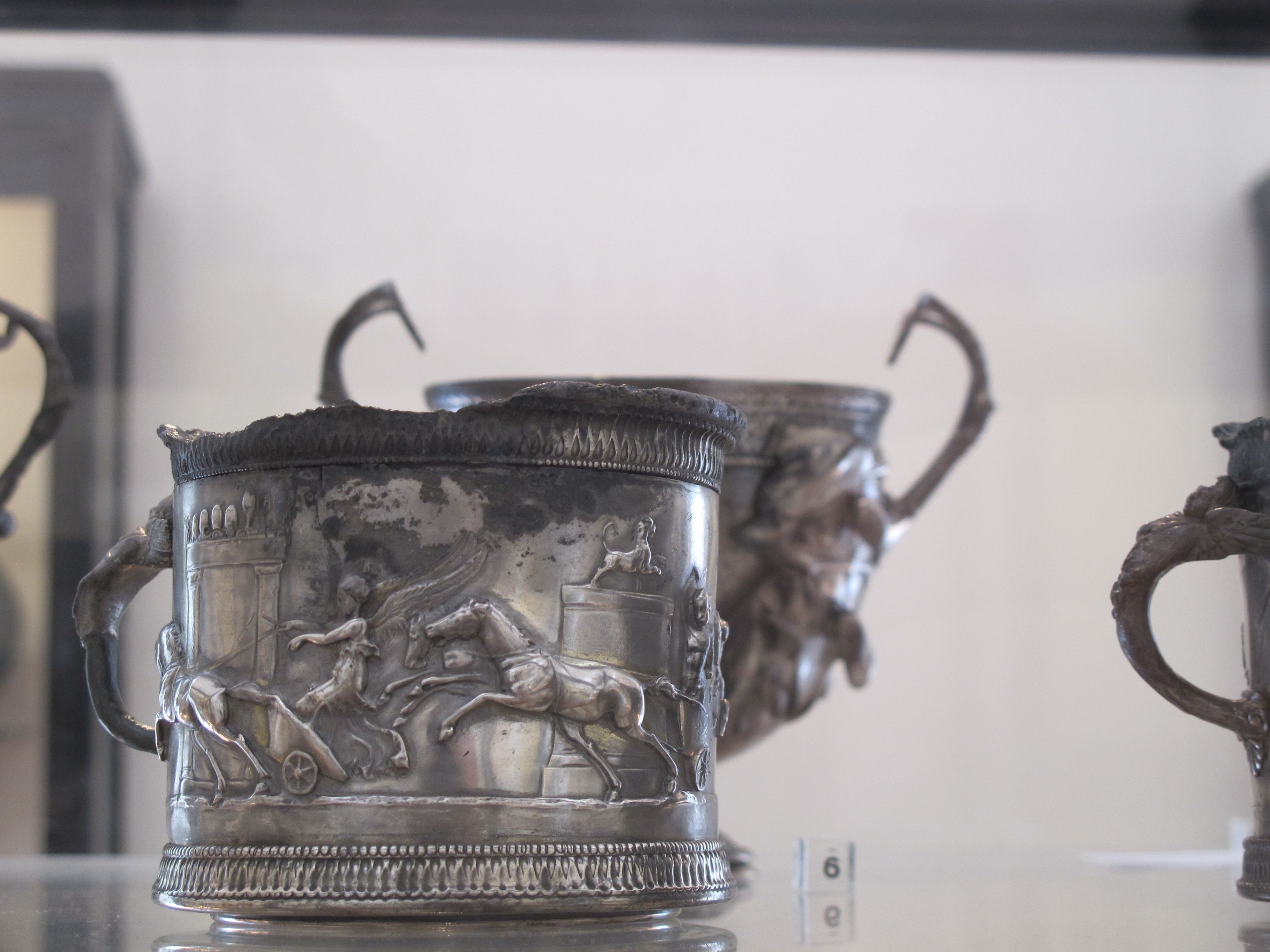 Napoli, museo archeologico - silverware